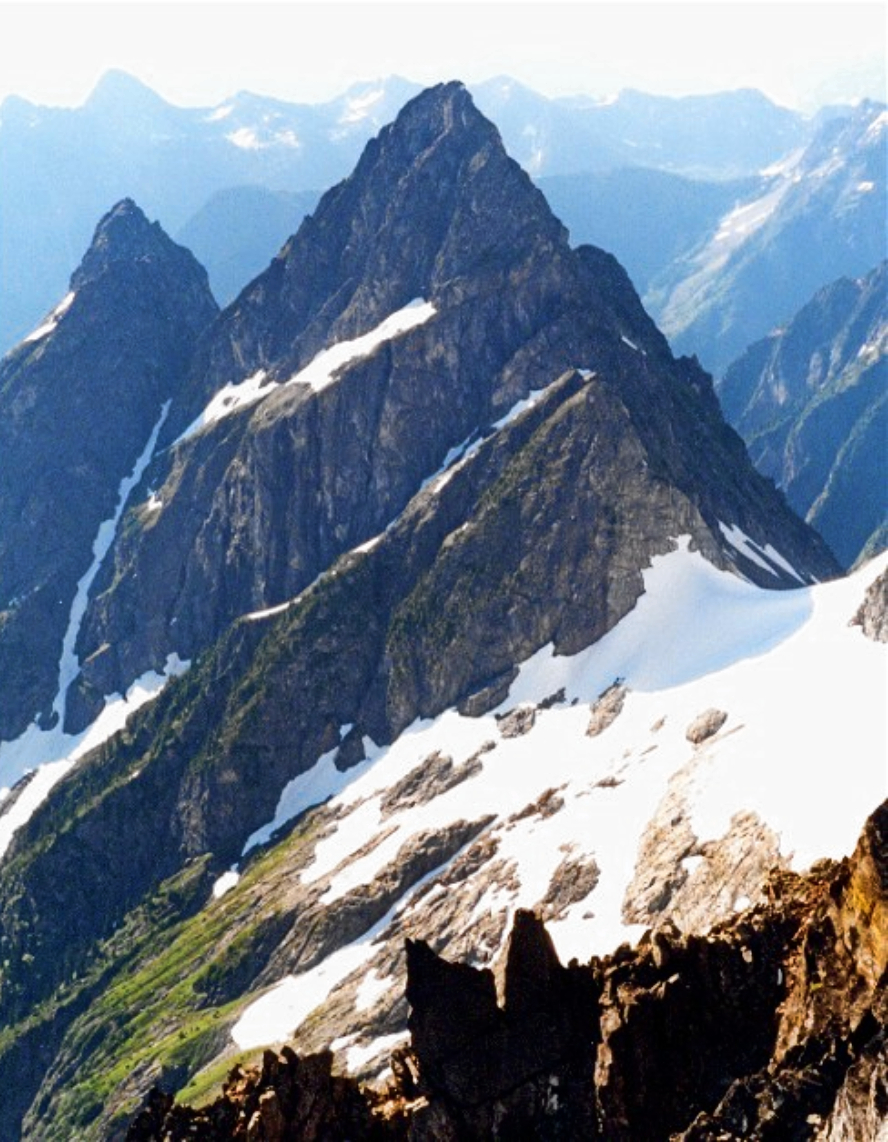 Trapper Mountain viewed from the summit of Magic Mountain. Trapper Annex (6960 feet) is the crag to the left.